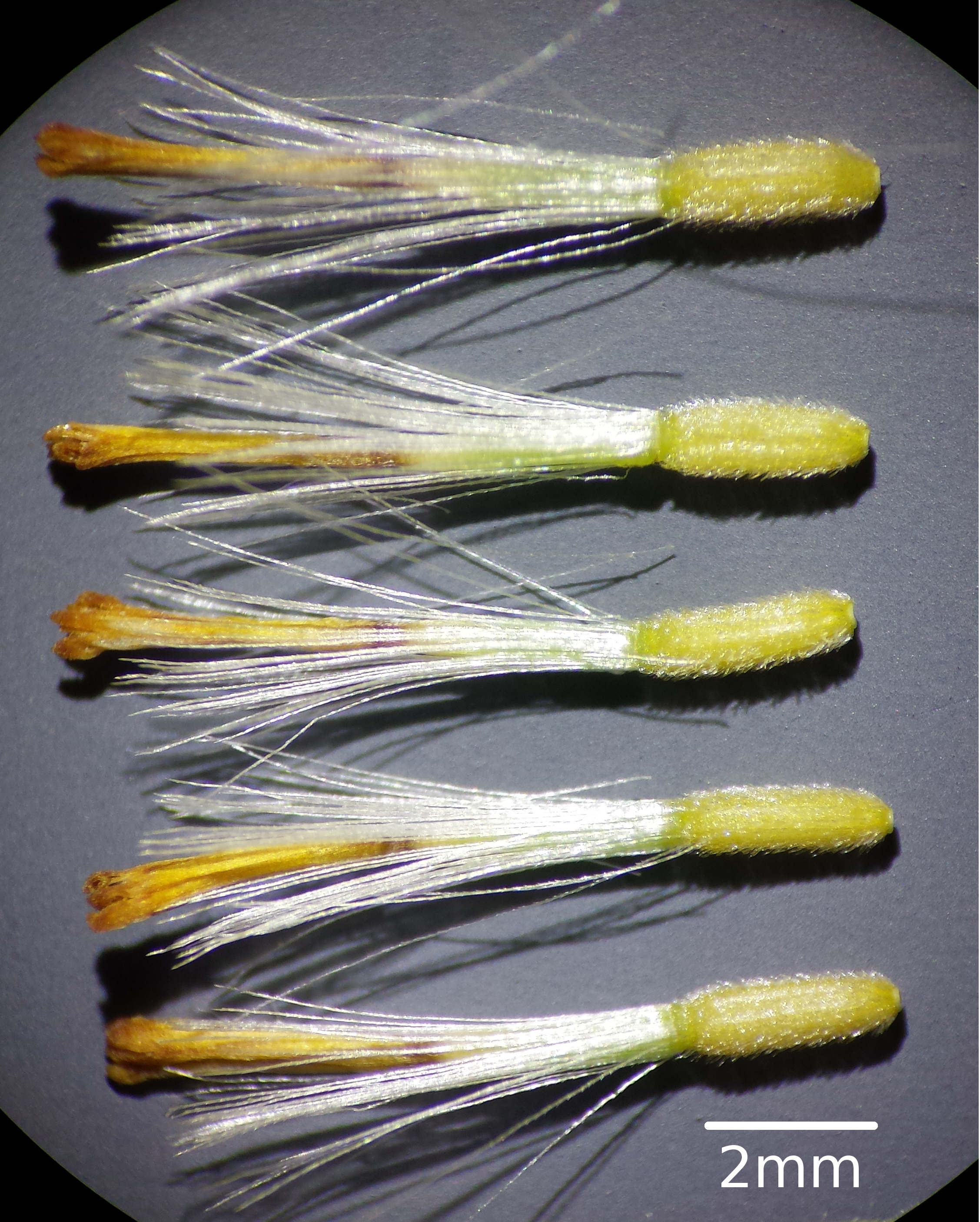 Disc florets Taxon: Senecio jacobaea (sensu Fischer et al. EfÖLS 2008) Location: Niederhollabrunn, district Korneuburg, Lower Austria - ca. 370 m a.s.l. Habitat: semi dry grassland